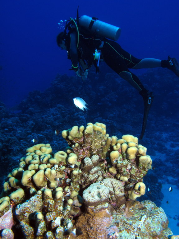 Corals and diver in deep blue at Halahi Reef, Red Sea, Egypt #SCUBA #UNDERWATER #PICTURES